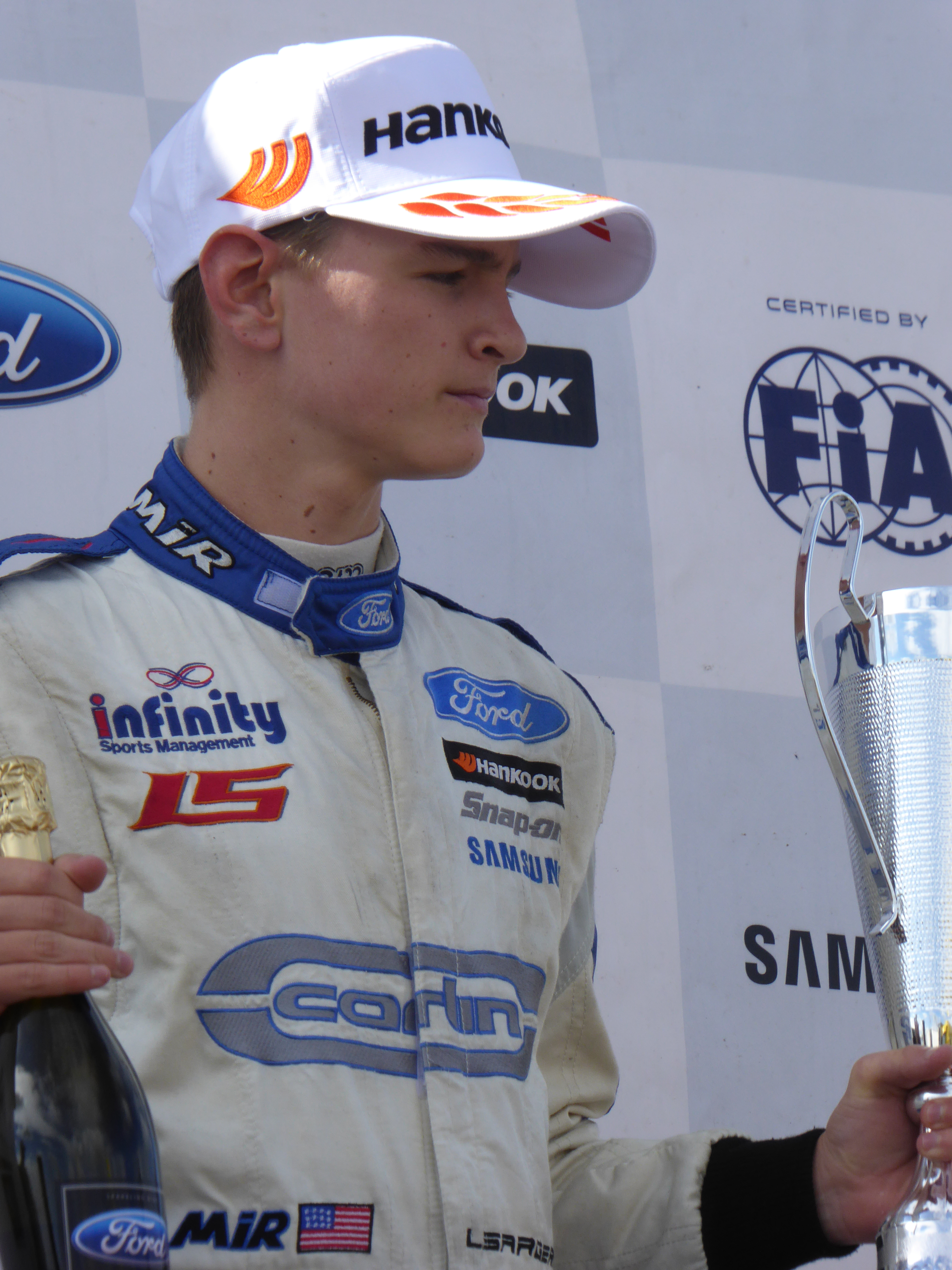 Logan Sargeant (Carlin), who finished second in Race 3, at the Knockhill round of the 2017 British F4 Championship.